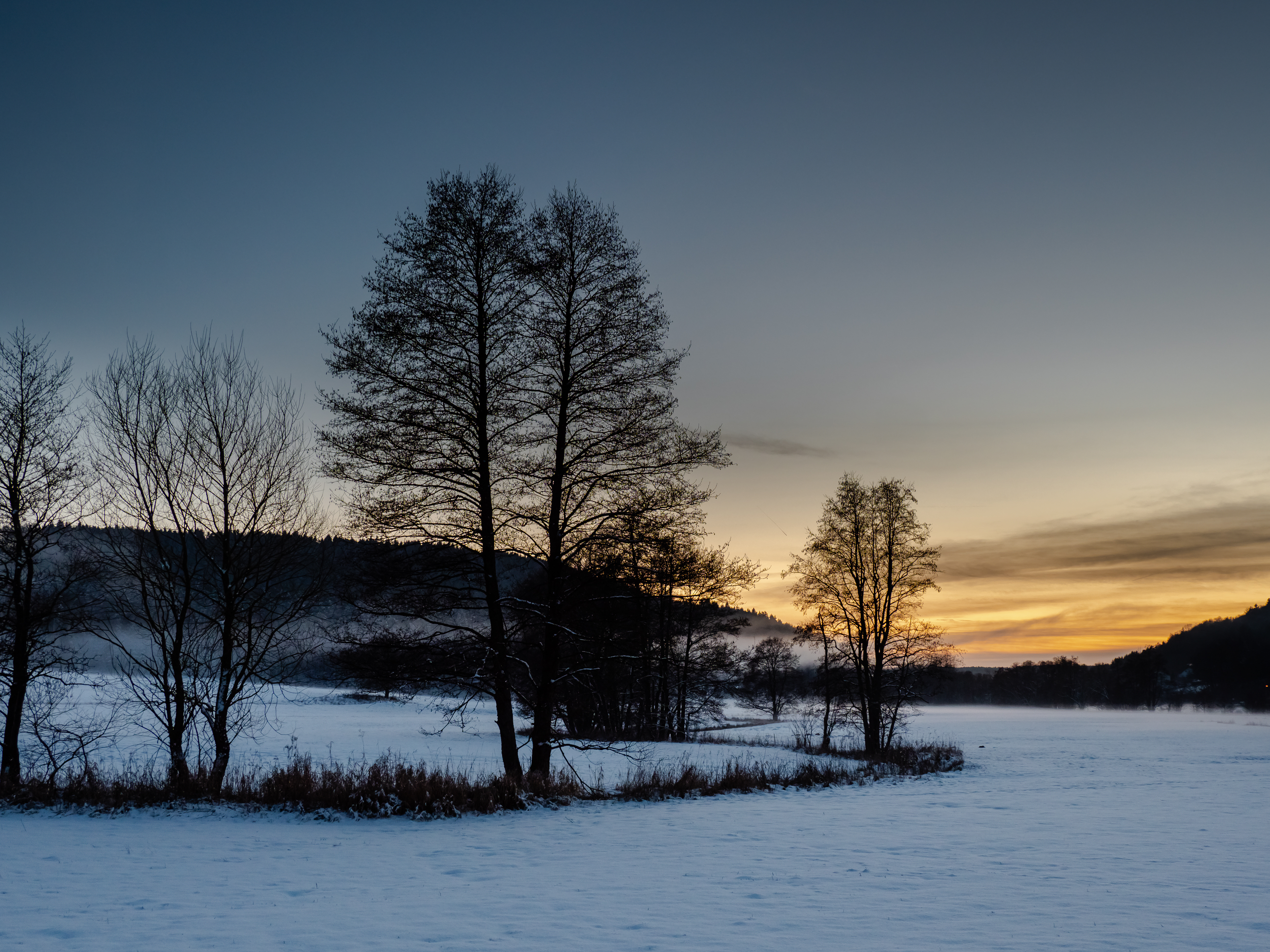 Erlen in the Truppachtal valley in Fänkische Switzerland